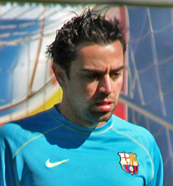 Xavier Hernández (born January 25, 1980, Terrassa, Catalonia), normally known as Xavi is a Catalan footballer who plays in central midfield for FC Barcelona